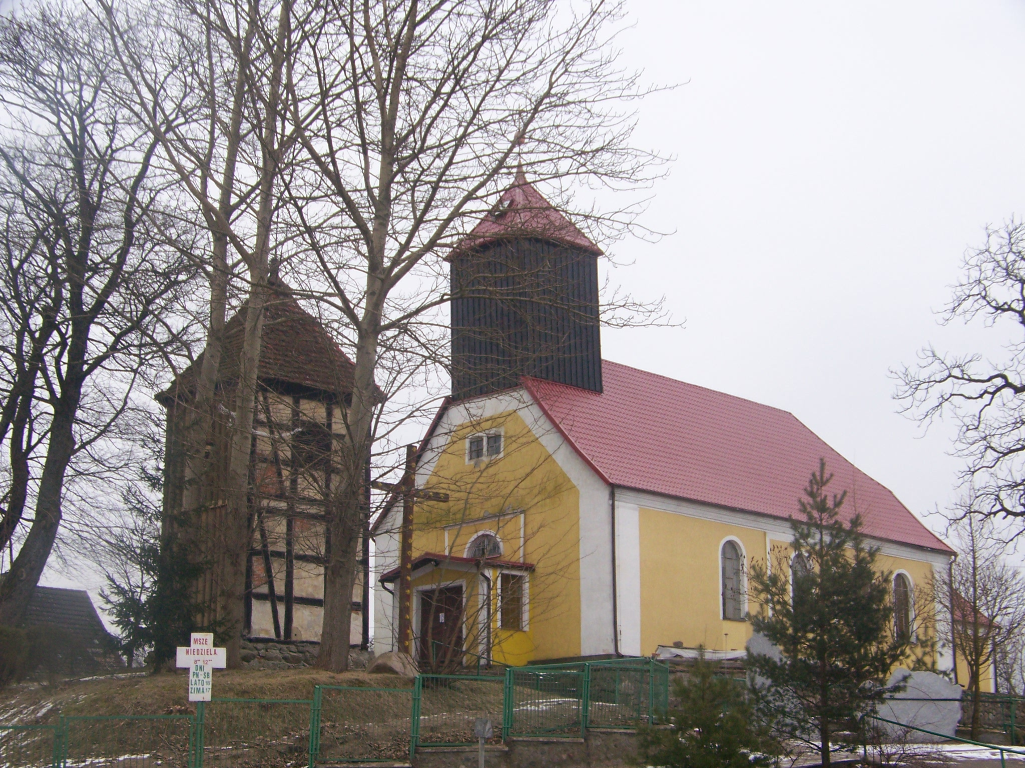 Wierzchowo - church of the Assumption